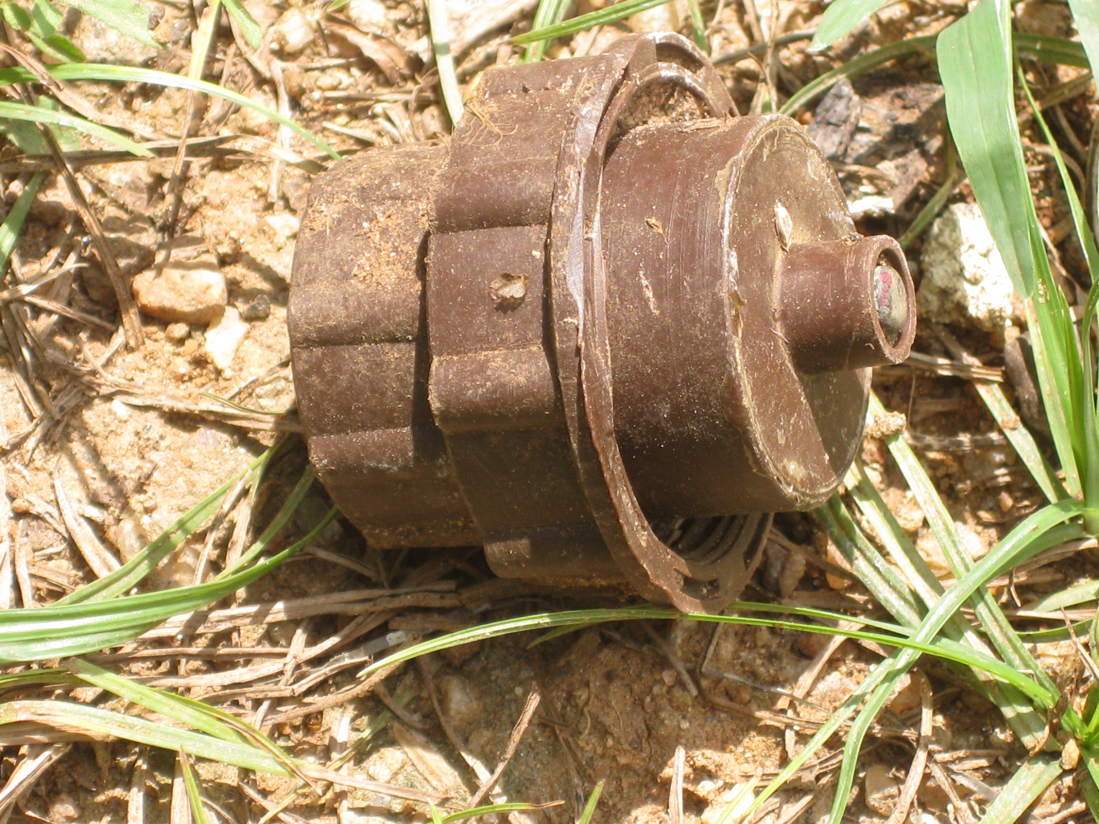 This is a fuze of Jony 99 mine found in Madathuvilankulam, Palamoddai GN in Vavuniya District Sri Lanka.